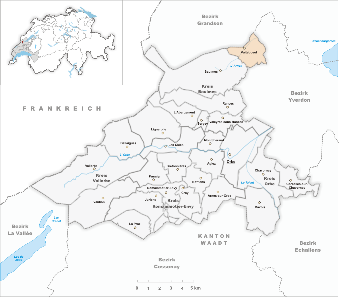 Municipality Vuiteboeuf